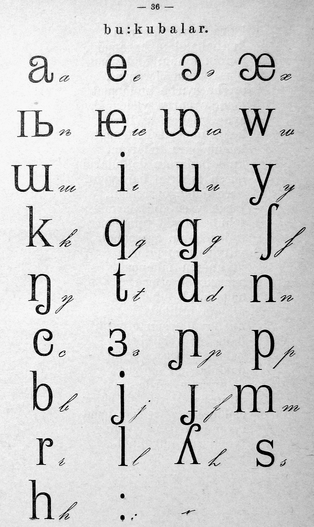 Scan from book 'Sanga oloq'